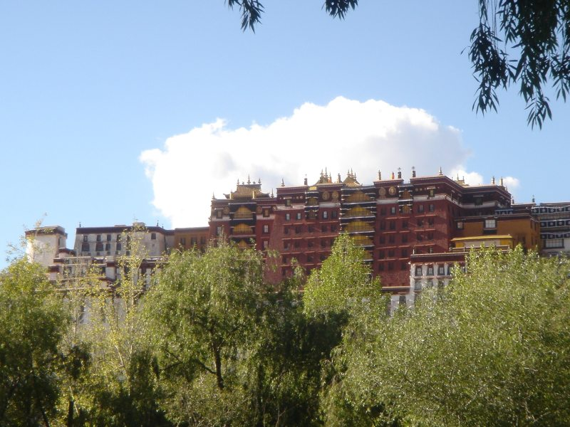 Photographer: Philipp Roelli (2005) released under the GFDL by creator